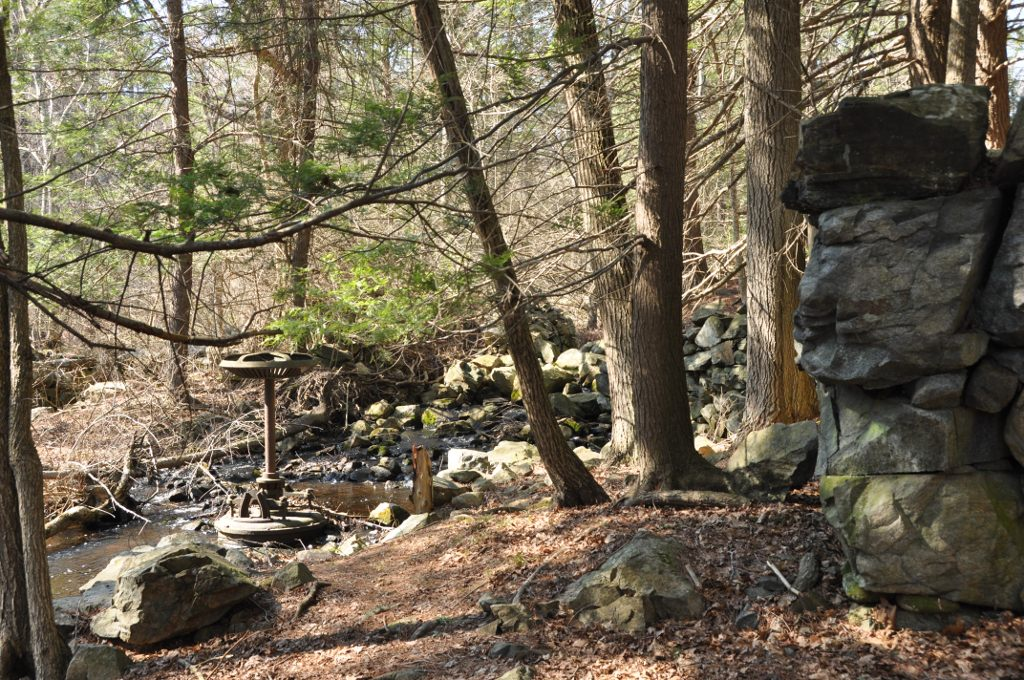 Remnants of 19th century waterworks at the Rowley Village Forge Site in Boxford, Massachusetts.